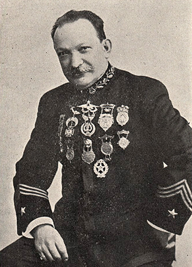 liberati